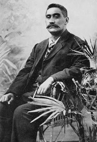 Image from scanned book at Wikisource